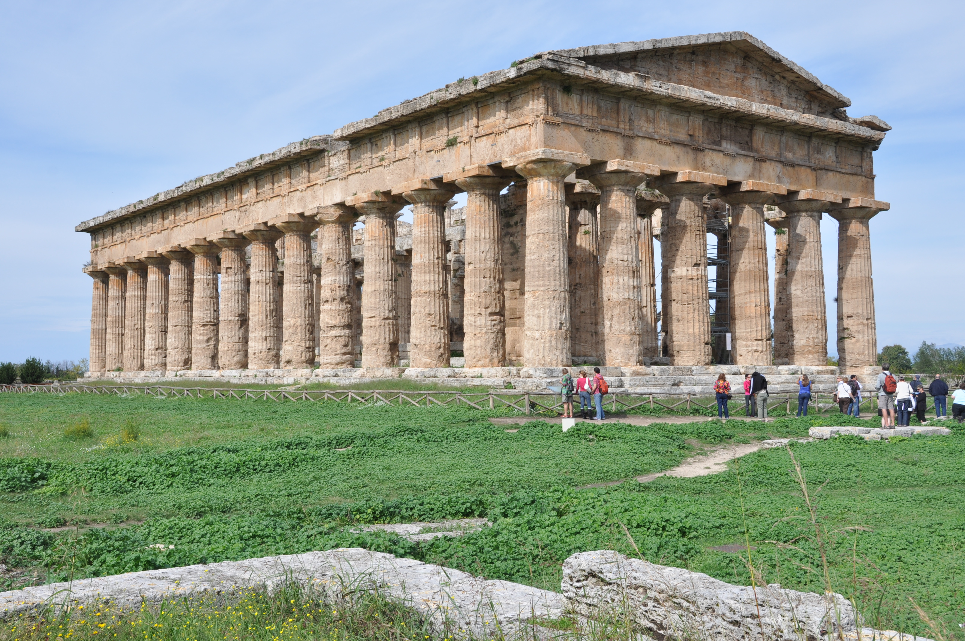 Temple of Poseidon in Paestum